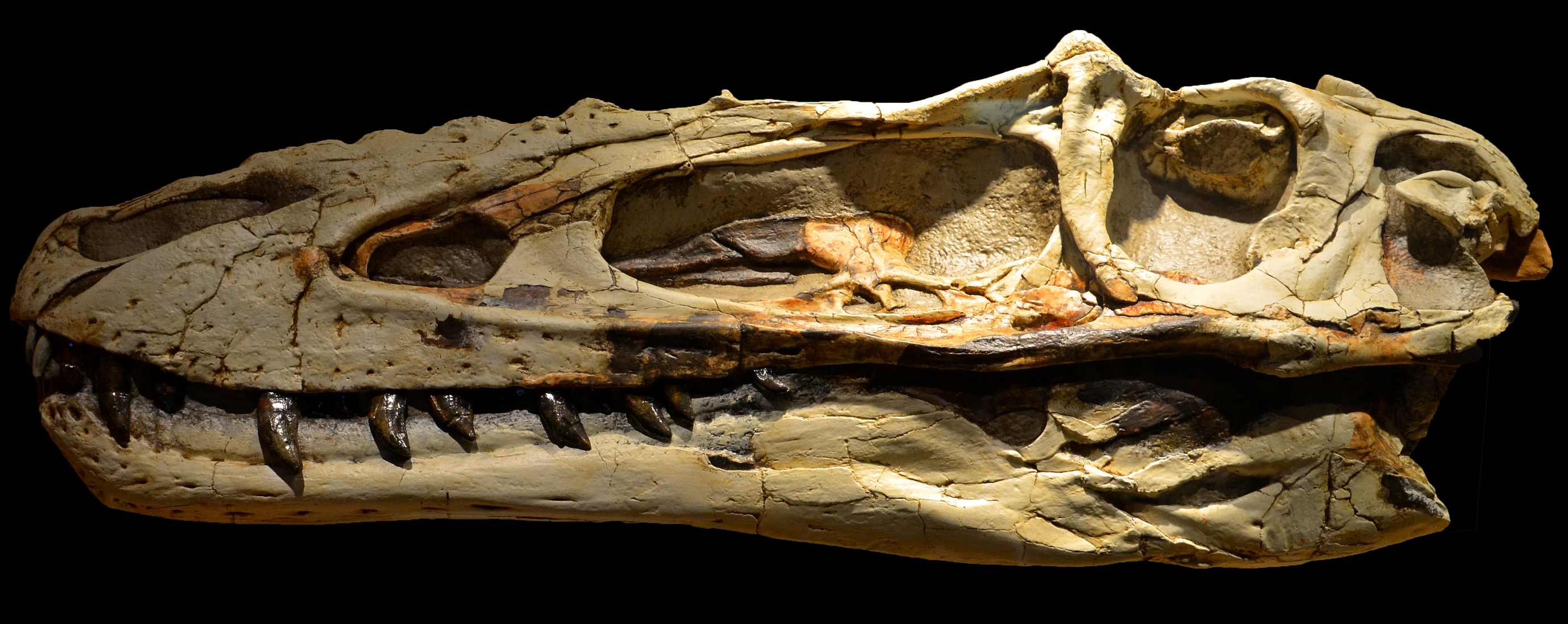 Alioramus, Tyrannosauridae. Late Cretaceous (68mya) from Mongolia. Taken in Wyoming Dinosaur Center, Thermopolis.